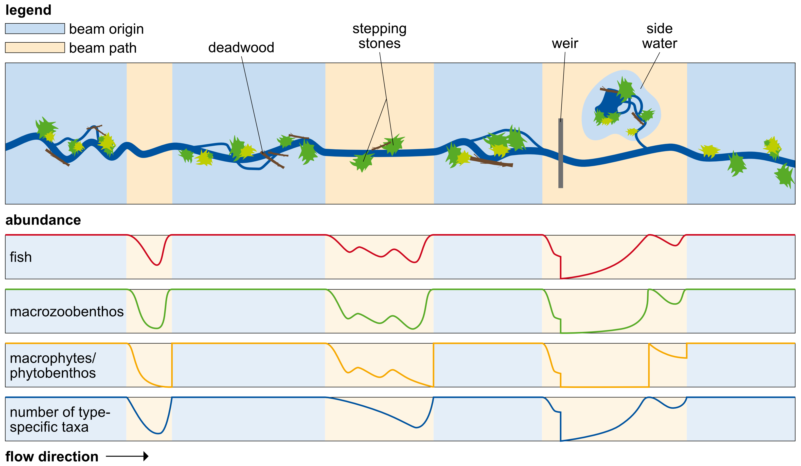 Schematic illustration of a running water with flow direction from left to right showing the beam origin concept with its components: beam origins (blue), beam paths (orange), stepping stones, obstacle, and side water (based on German Council for Land Stewardship 2008).